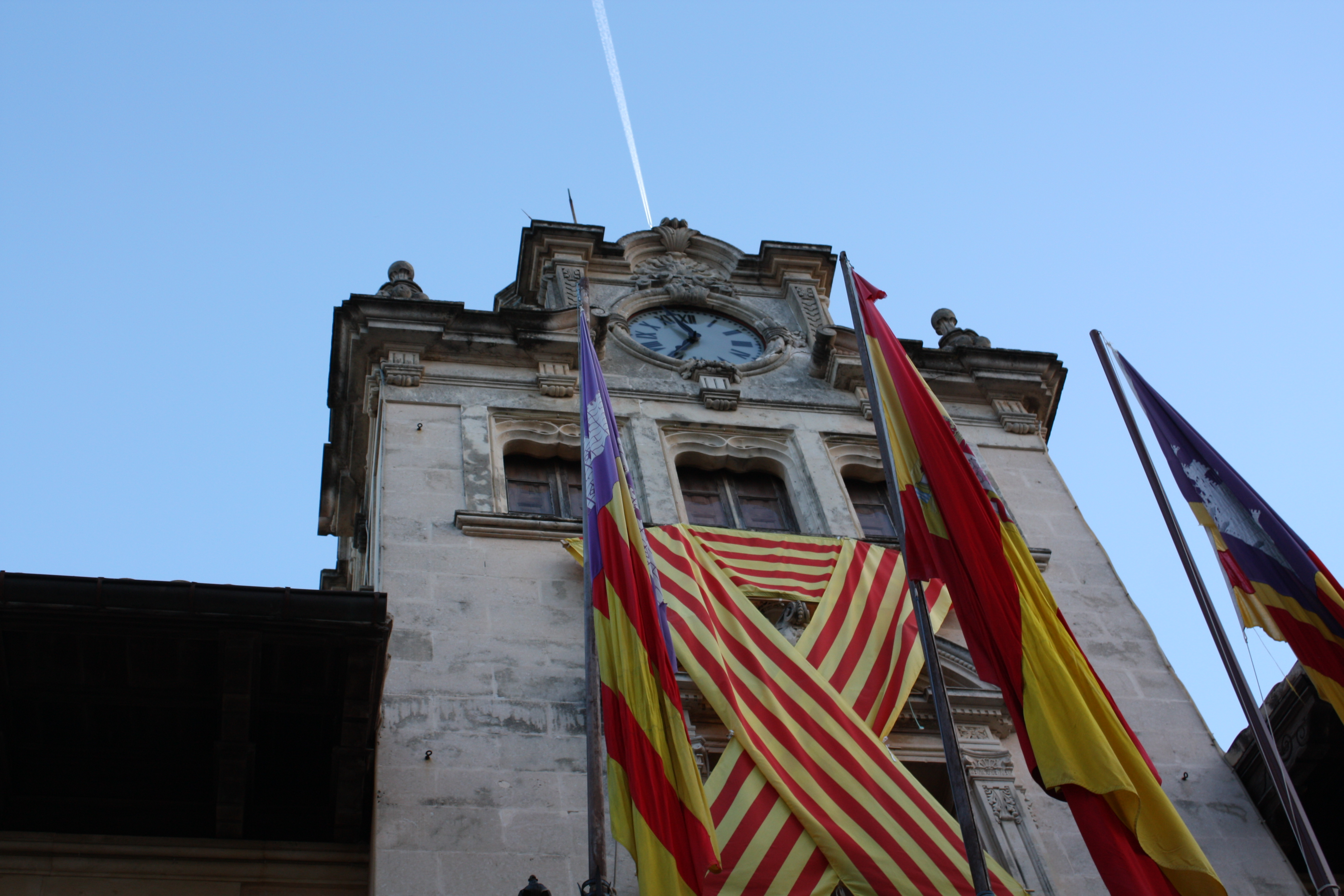 Late afternoon picture of the Mayor House in Alcúdia, Mallorca, Spain